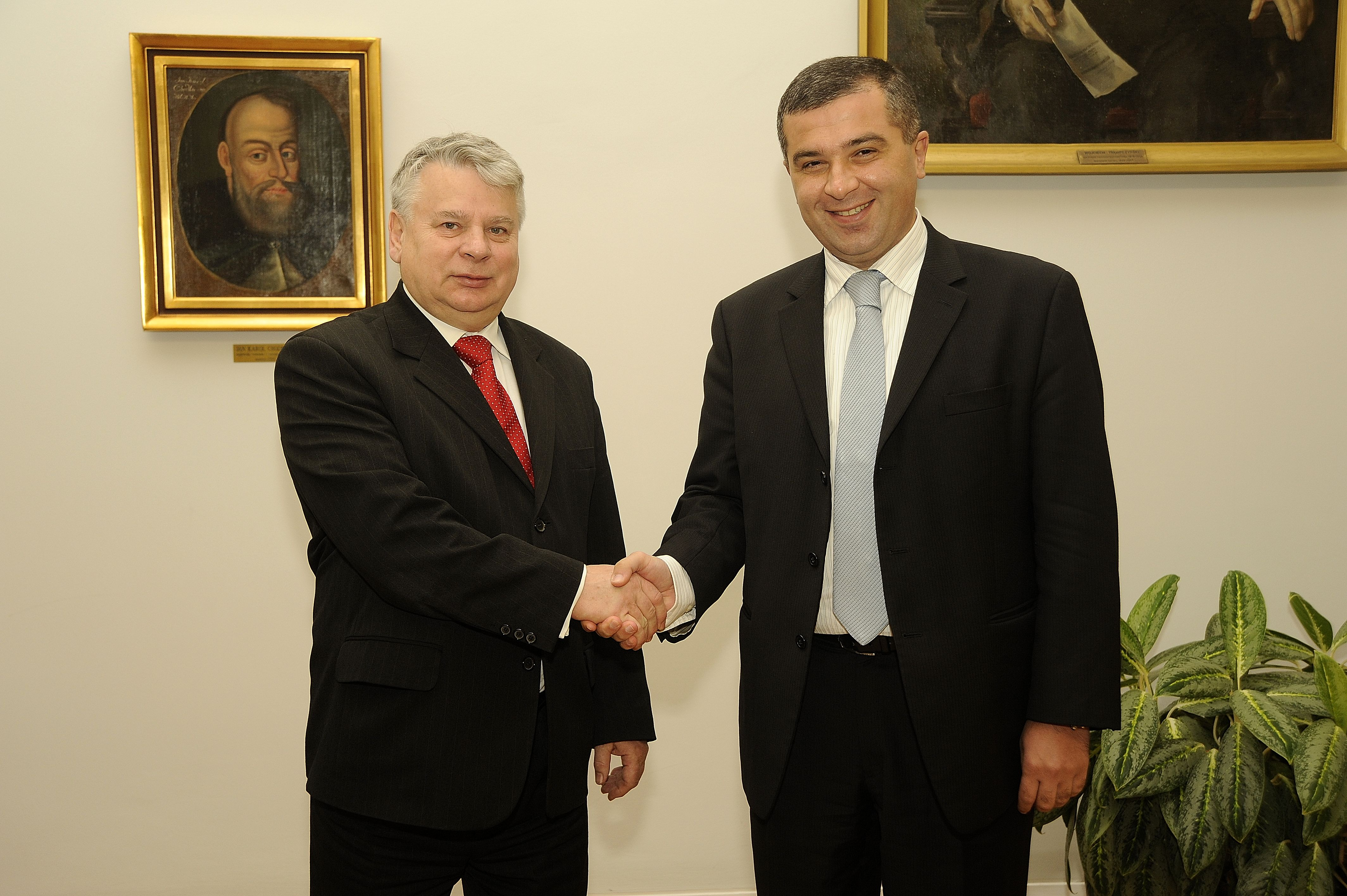 Speaker of the Parliament of Georgia David Bakradze and Marshal Bogdan Borusewicz in the Polish Senate